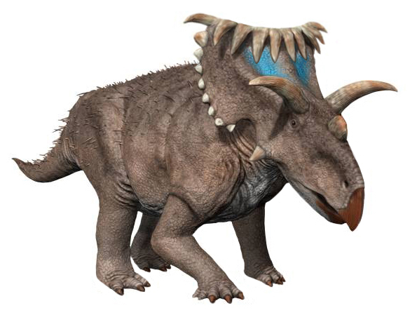 Kosmoceratops richardsoni. Matches proportions shown in original description:[1]